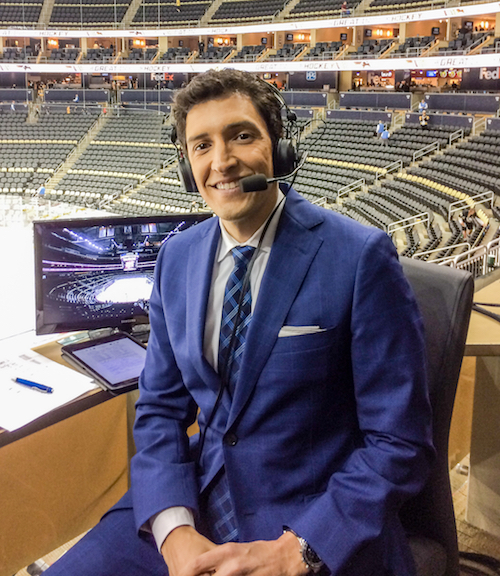 Steve Mears in his broadcasting booth at PPG Paints Arena in Pittsburgh, Pennsylvania